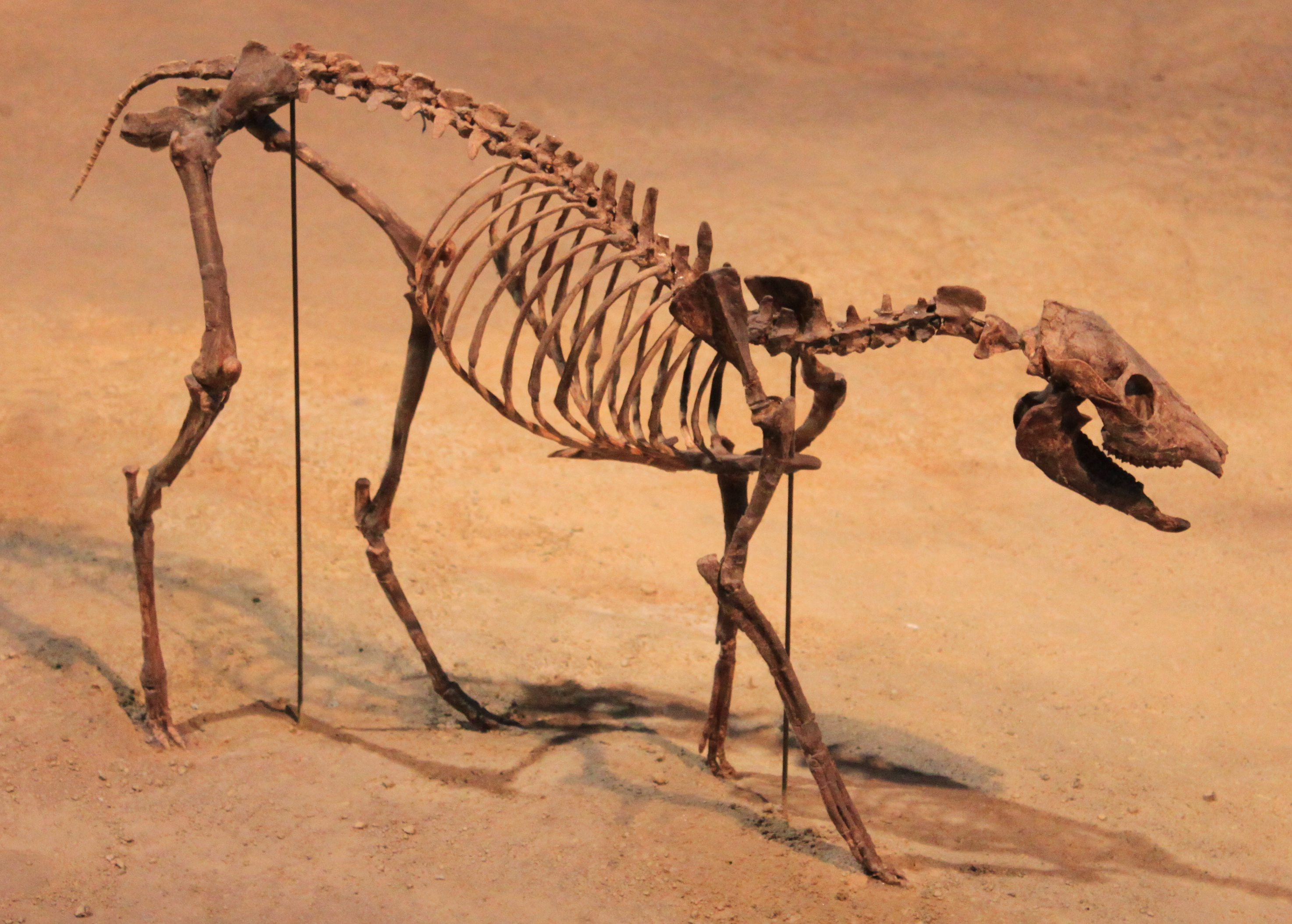 Taken at the Minnosota Science Museum: Dinosaurs and Fossils Gallery. Creative Commons licensed photo by . Please feel free to take and reuse for any purpose.